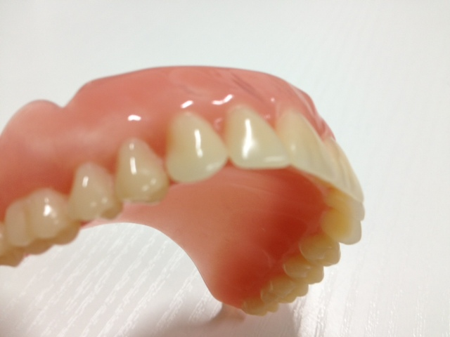 Full denture upper jaw